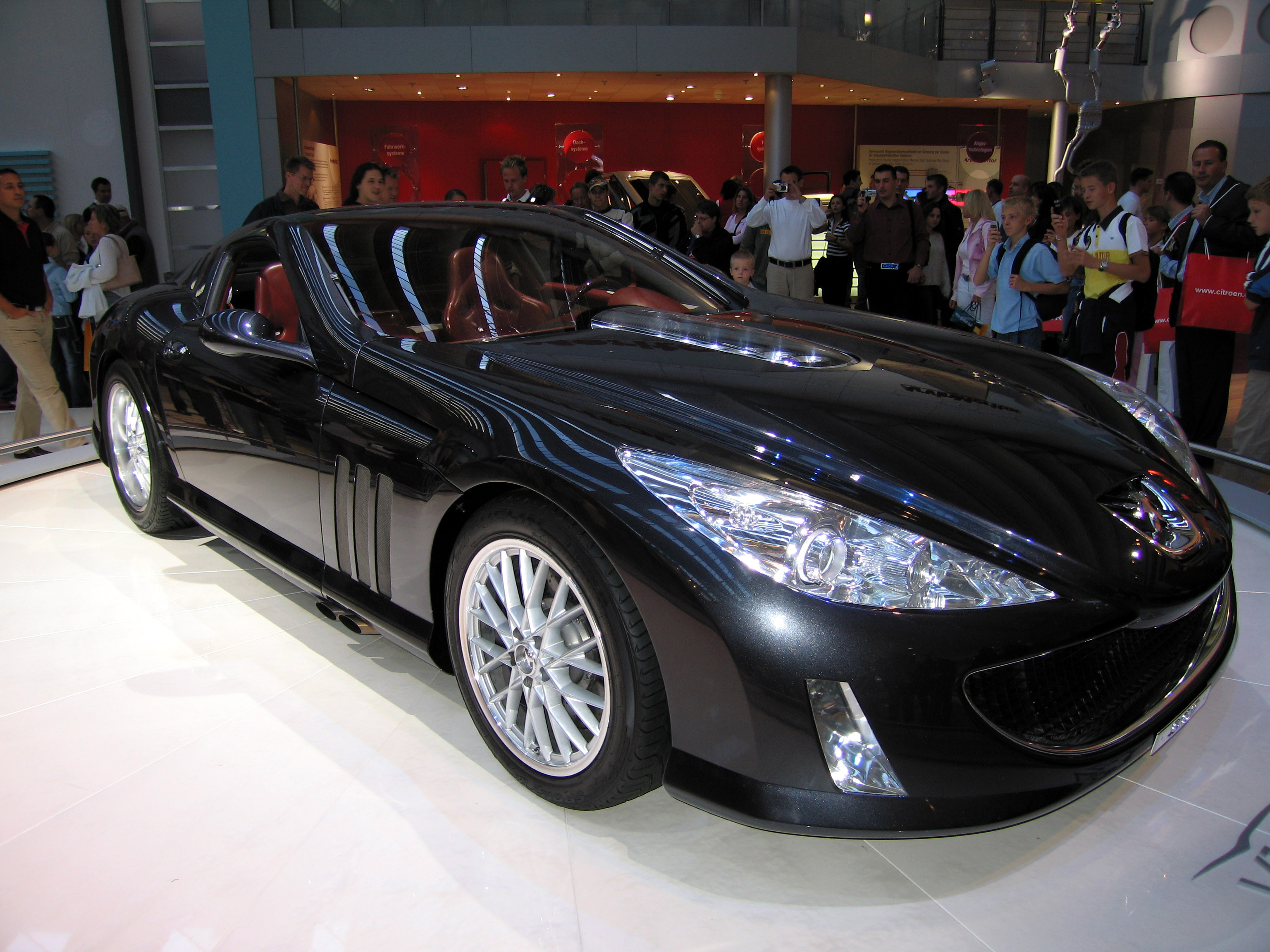 Peugeot 907 at the IAA 2005